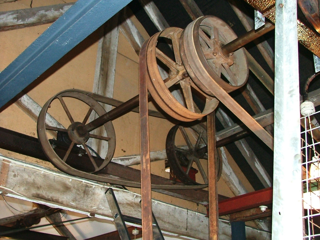 An old machine shop at Amberley working museum, England. The machines in the shop were powered by one central engine and driven by belt drives as shown in the picture.Belts